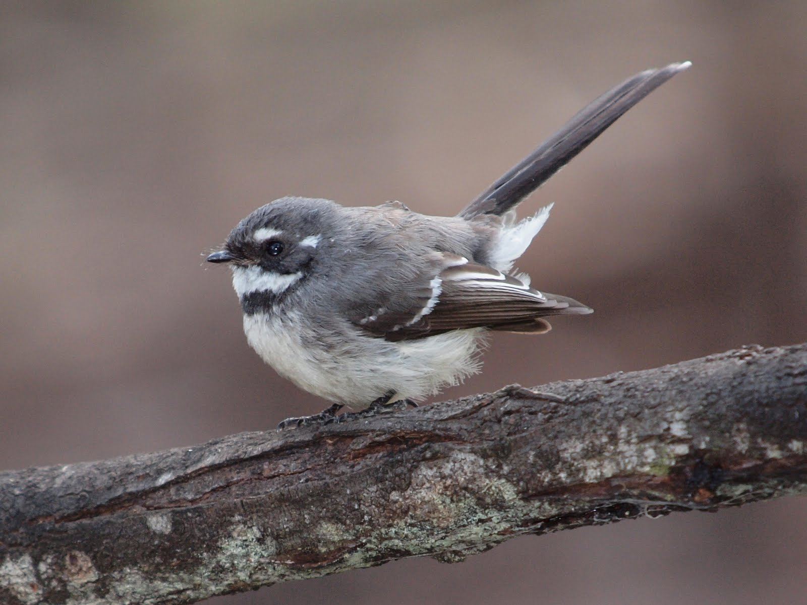 A Grey Fantail in Canberra, Australia.